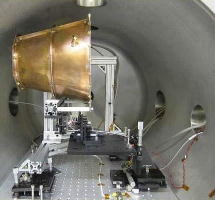 RF resonant cavity thruster built by NASA Eagleworks laboratory during their 2013–2014 experiments.